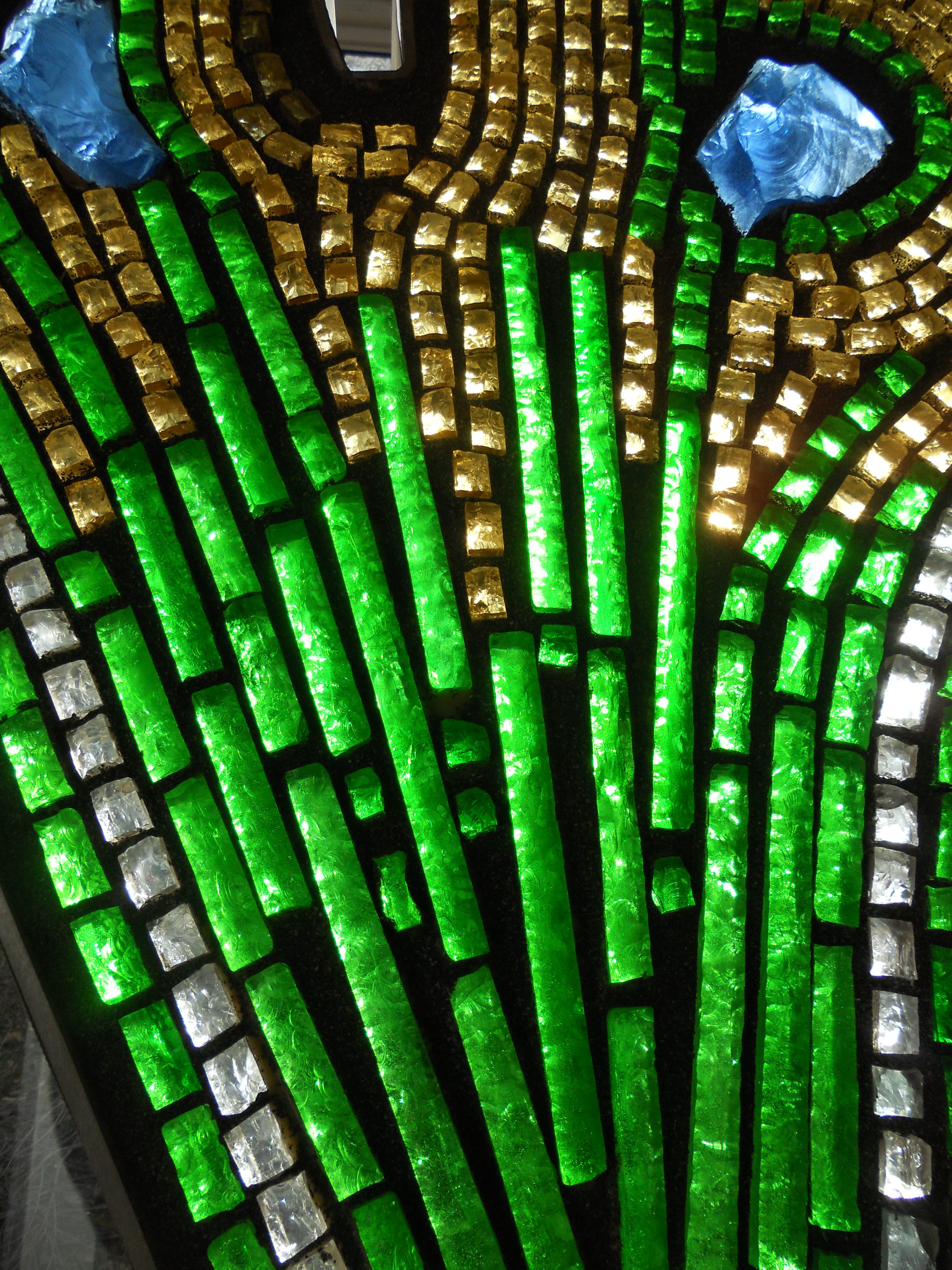 Dalle de Verre